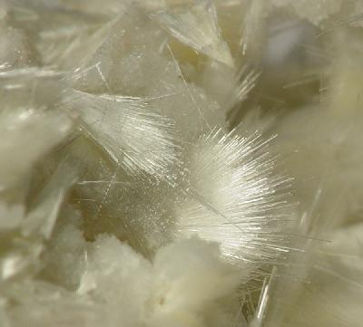 Mordenite Locality: Old Broken Hill Road, Coromandle Peninsula, New Zealand Size: miniature, 4.4 x 3 x 3 cm Mordenite This 2 cm vug is completely filled with gorgeous .25 cm sprays of ultra-fine and lustrous needles of this uncommon zeolite in fine quality. Exact location if Broken Hill Road. Ex. Martin Lewadny Collection.